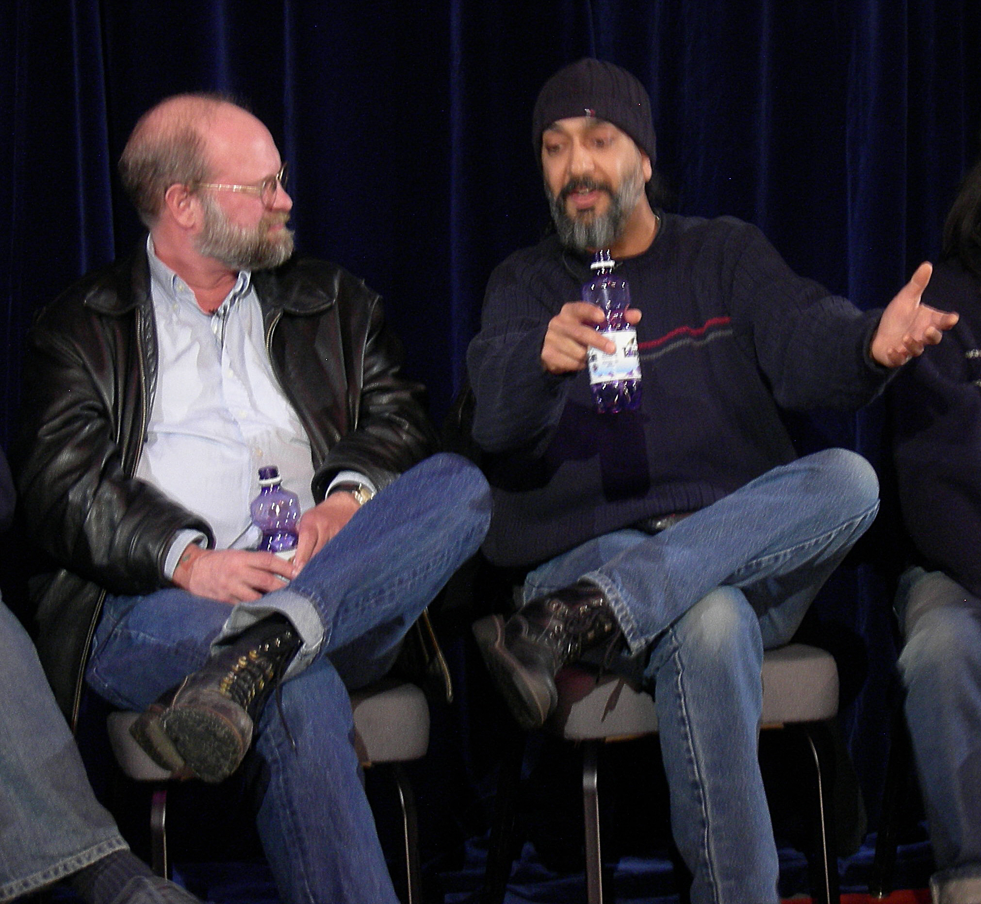 Art Chantry, graphic designer, and Kim Thayil of Soundgarden. Snapped at a panel discussion as part of the exhibit "Sound & Vision: Artists Tell Their Stories" at Experience Music Project, Seattle, Washington. Cropped and sharpened.